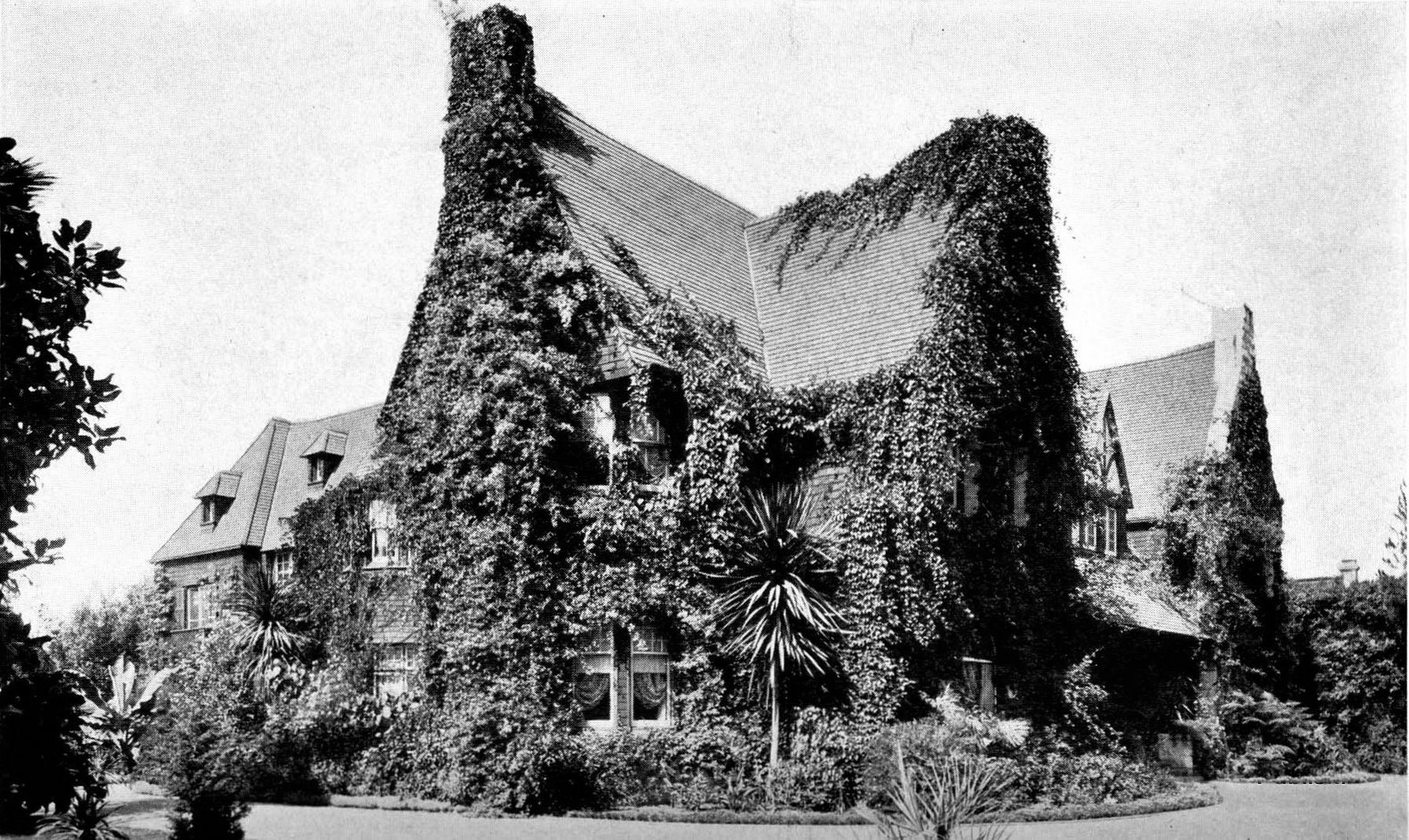 Laughlin Mansion, formerly at 666 W Adams Blvd in Los Angeles, CA